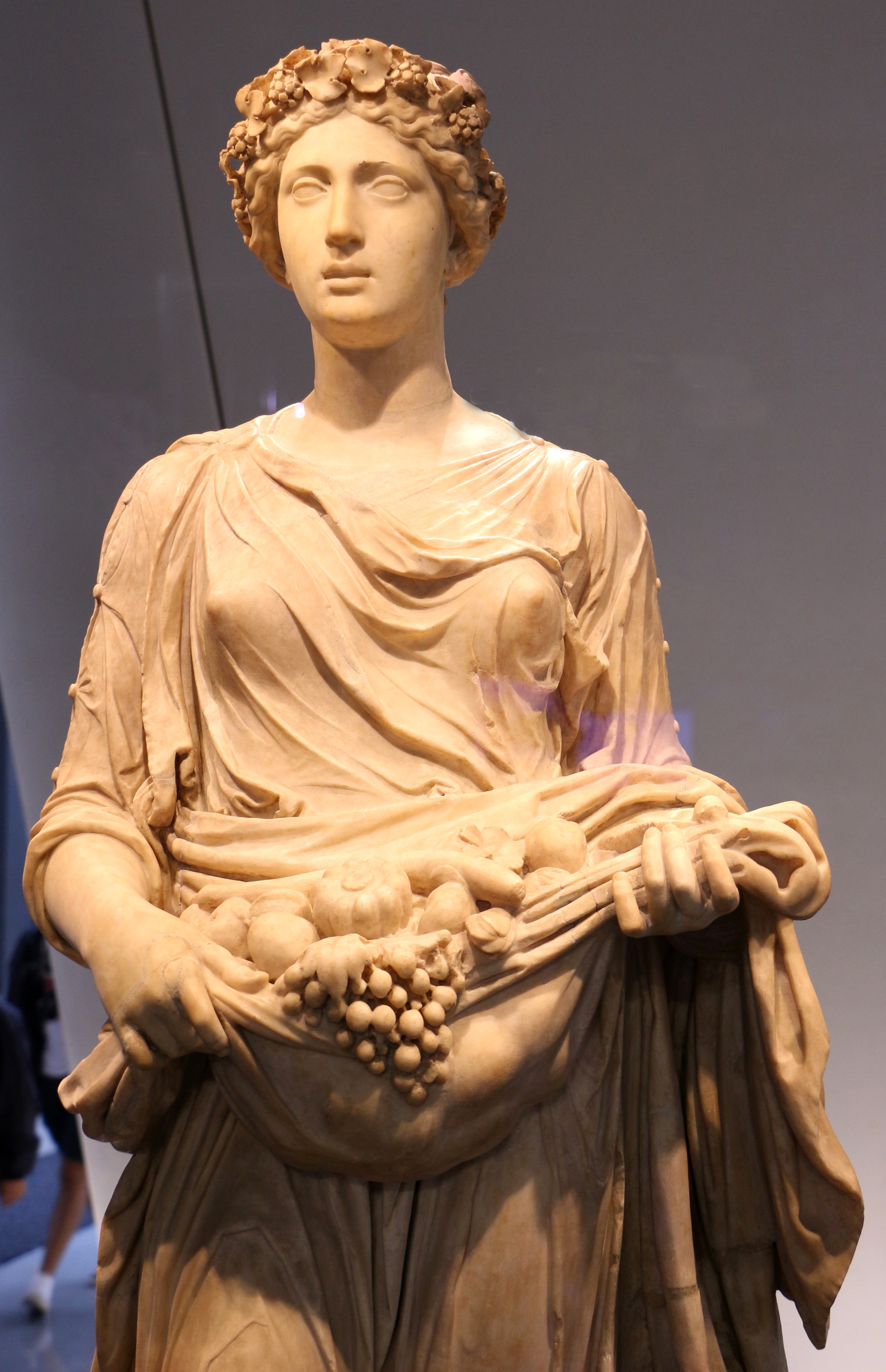 Palazzo Italia (Expo 2015)